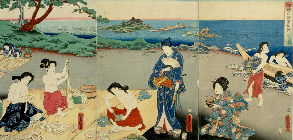 Japanese wood-print, Ukiyo-e. Dried abalone making in Ise. by Utagawa Kunisada(1786 - 1864))